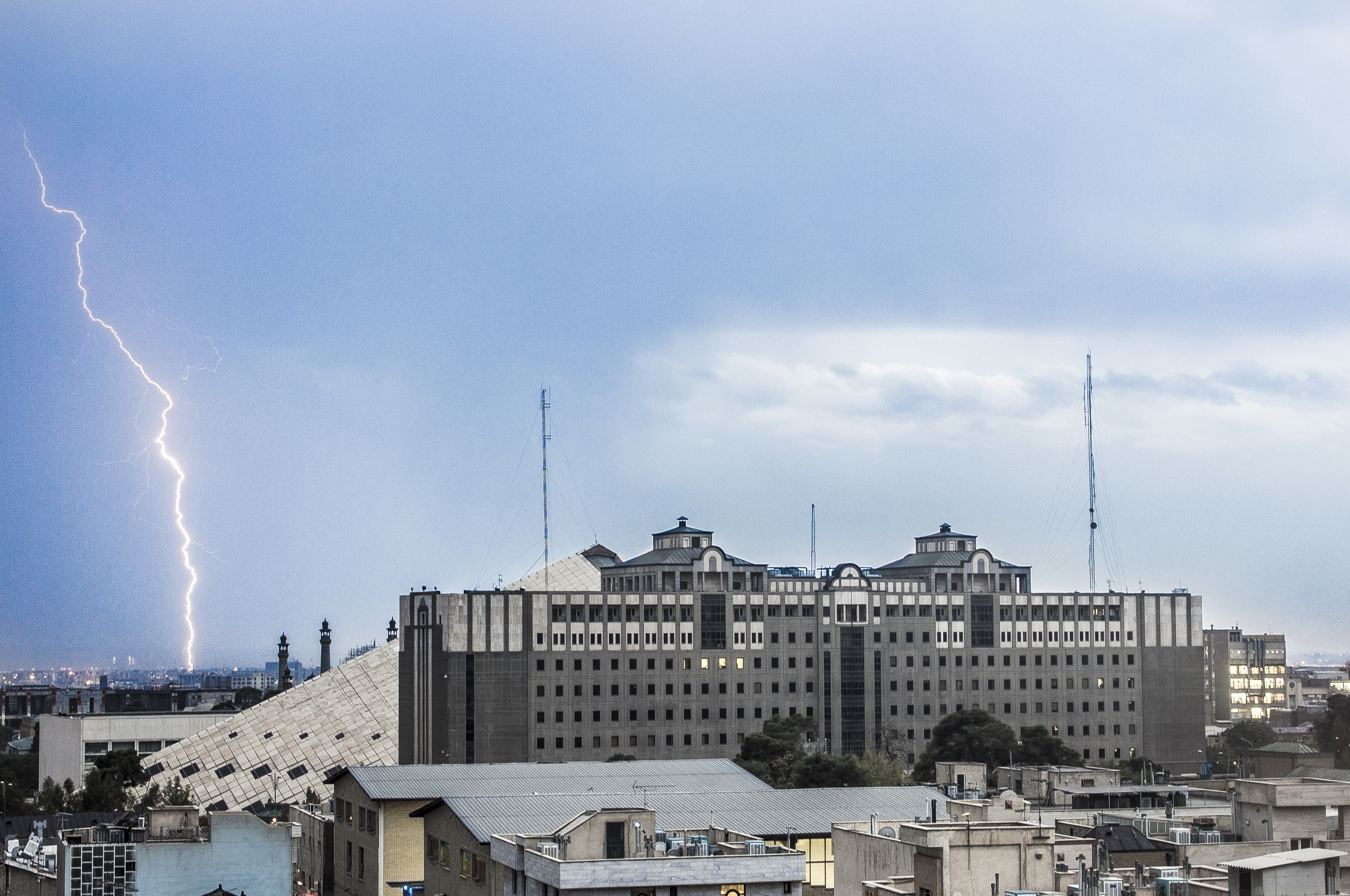 Parliament of Iran, Tehran City